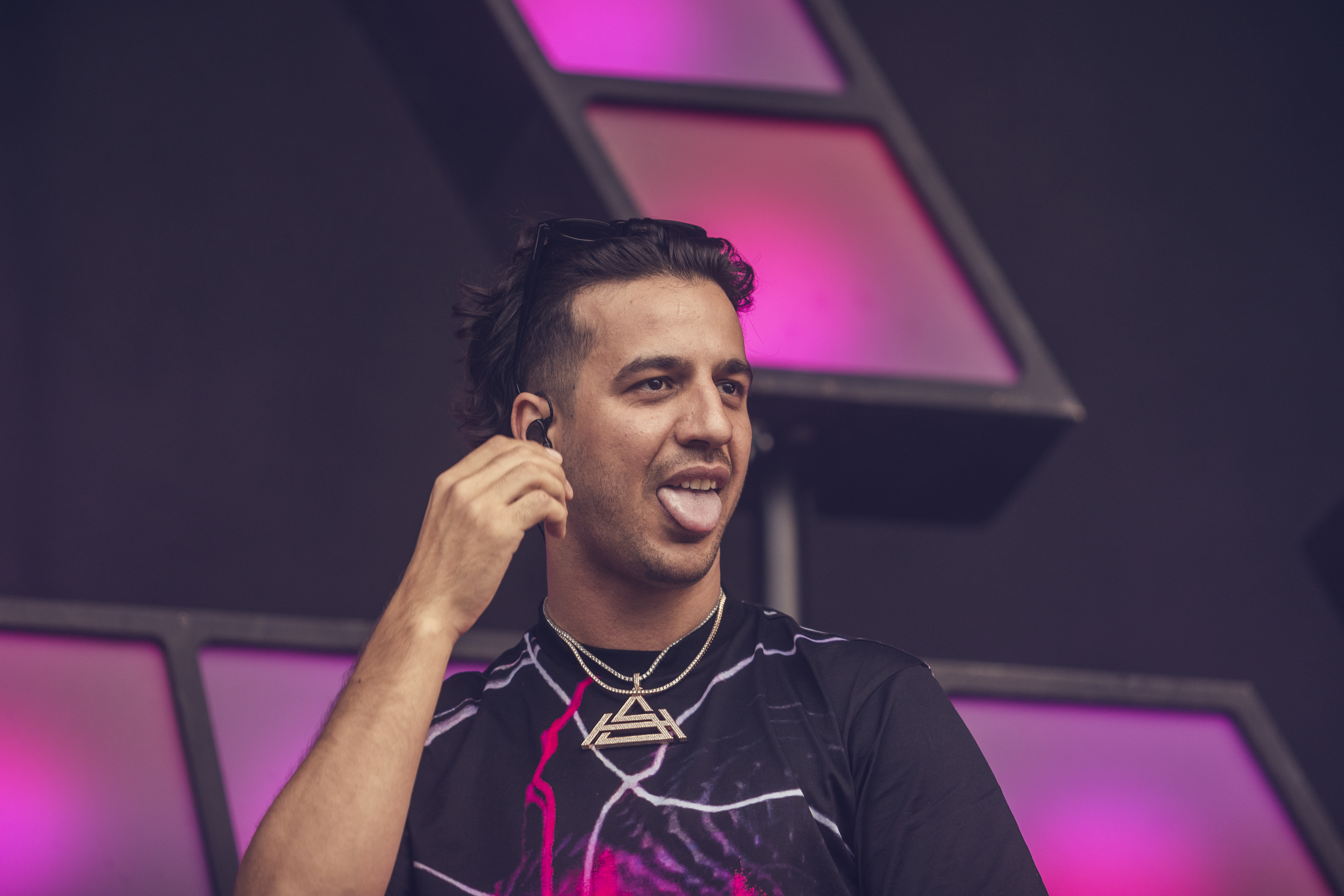 Ufo361 (rapper)